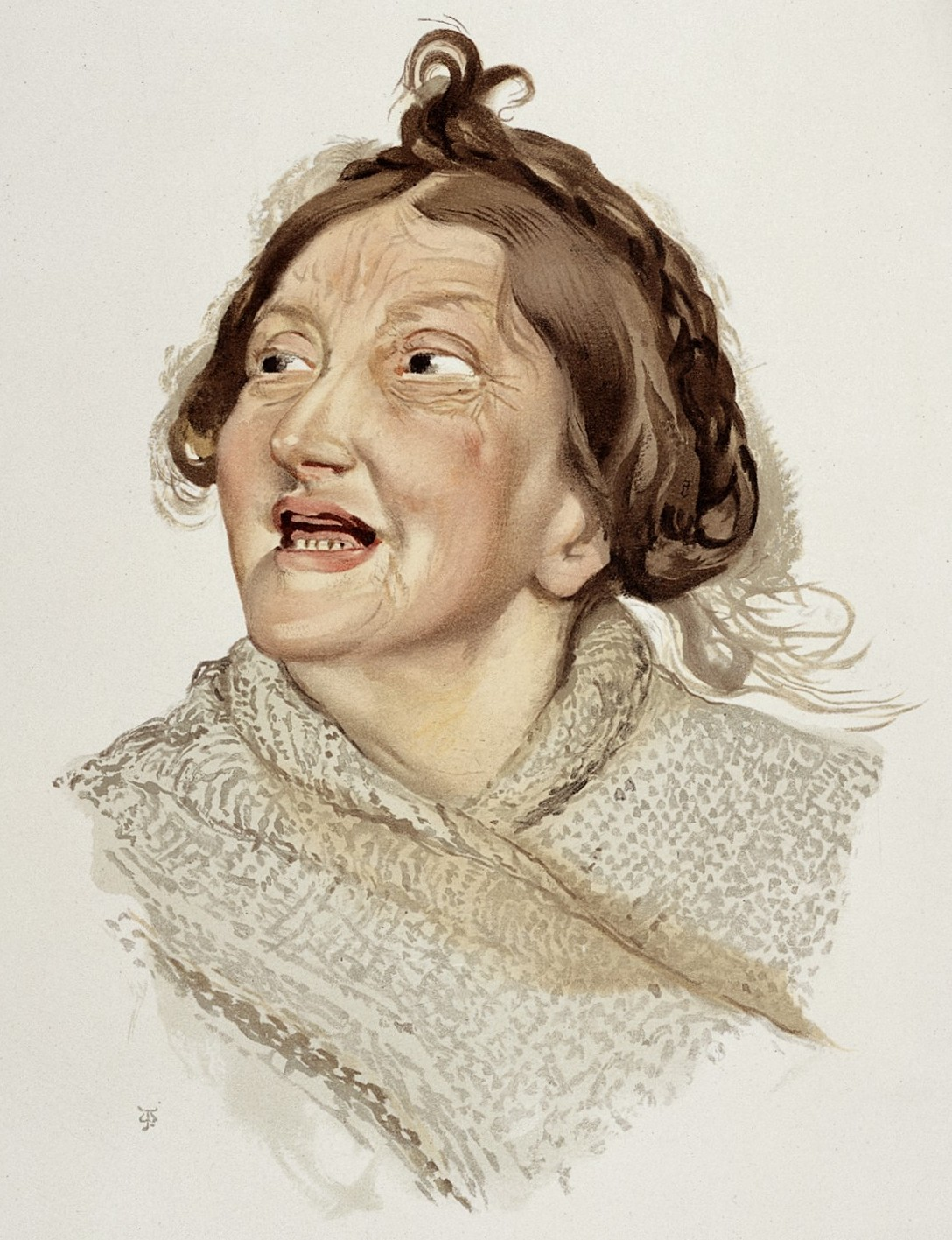 Iconographic Collections Keywords: 1892; hilarious mania; MENTAL ILLNESS; wildcat 38621; Psychiatry; J. Williamson; Byrom Bramwell